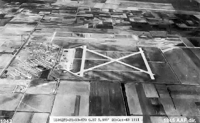 1943 image of Harlingen Army Airfield, Texas